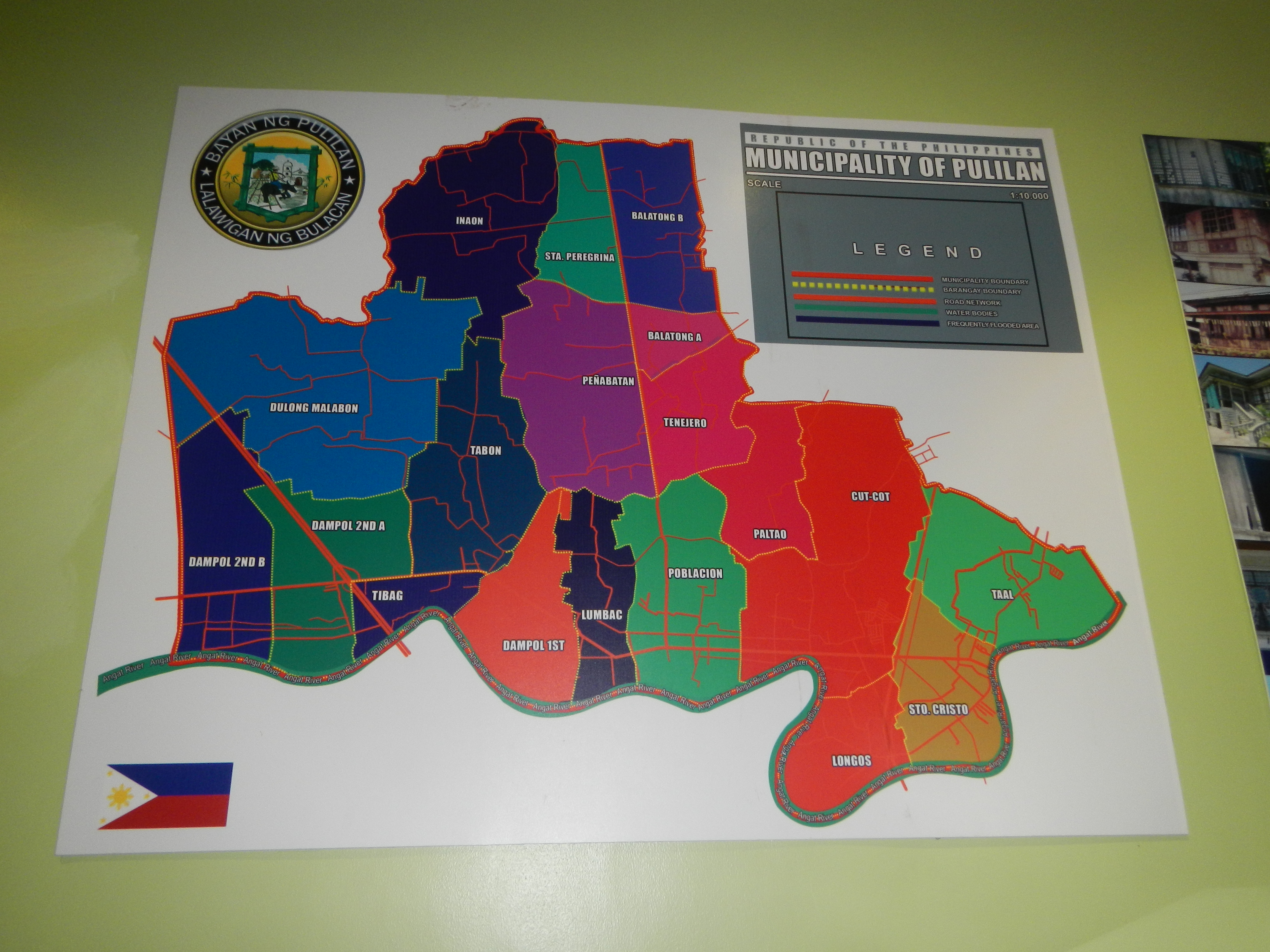 Map of Pulilan, Bulacan in the Isauro Gabaldon House (Museo de Pulilan, 2012 Centennial Building and Municipal Trial Court) (Restored Gabaldon building houses new Museo de Pulilan in Bulacan Centennial building erected in 1908 upon the implementation of Act No. 1801 of the First Philippine Legislature, the Gabaldon Act, after its sponsor Isauro Gabaldon of San Isidro, Nueva Ecija; the Pulilan Gabaldon now houses the Municipal Trial Court and Museo de Pulilan; October 4, 1919 Inauguration of Pulilan Elementary School, Letter of Teodore Roosevelt, Governor-General to Fausto Aguirre, Pulilan Municipal Presidente or Mayor May 14, 1932; Isauro Gabaldon Isauro Gabaldon, Resident Commissioner of the Philippines; located in and as part of Barangay Poblacion, Pulilan, Bulacan - Pulilan Municipal Hall Town Hall Compound, Complex and Municipal Offices, Court, Plaza, Rizal Monument and Museum).